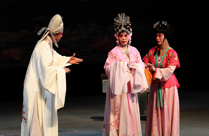 yuju opera